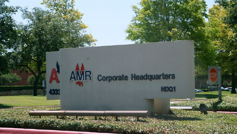 The sign indicating the headquarters of AMR Corporation, American Airlines, and American Eagle Airlines - The photograph faces away from the actual headquarters building